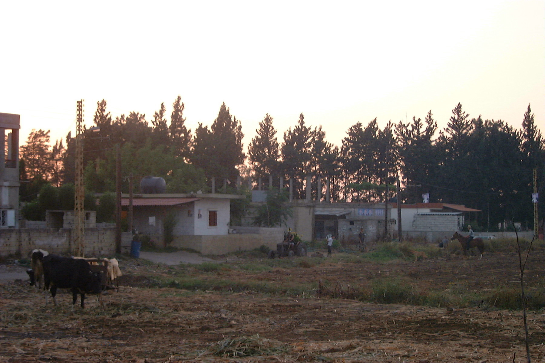 Field with cows and a boy on a horse in Massoudieh, a village in North Lebanon.